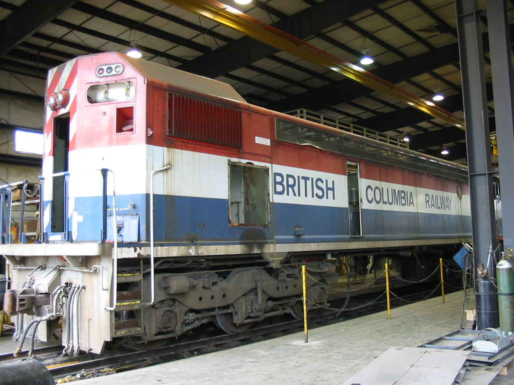 A British Columbia Railway electric locomotive being dismantled at CEECO Rail Services, Tacoma, on July 6, 2004. Photo by Sean Lamb (User:Slambo).